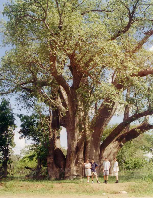 Baobab tree near Victoria Lakes 1000 years old